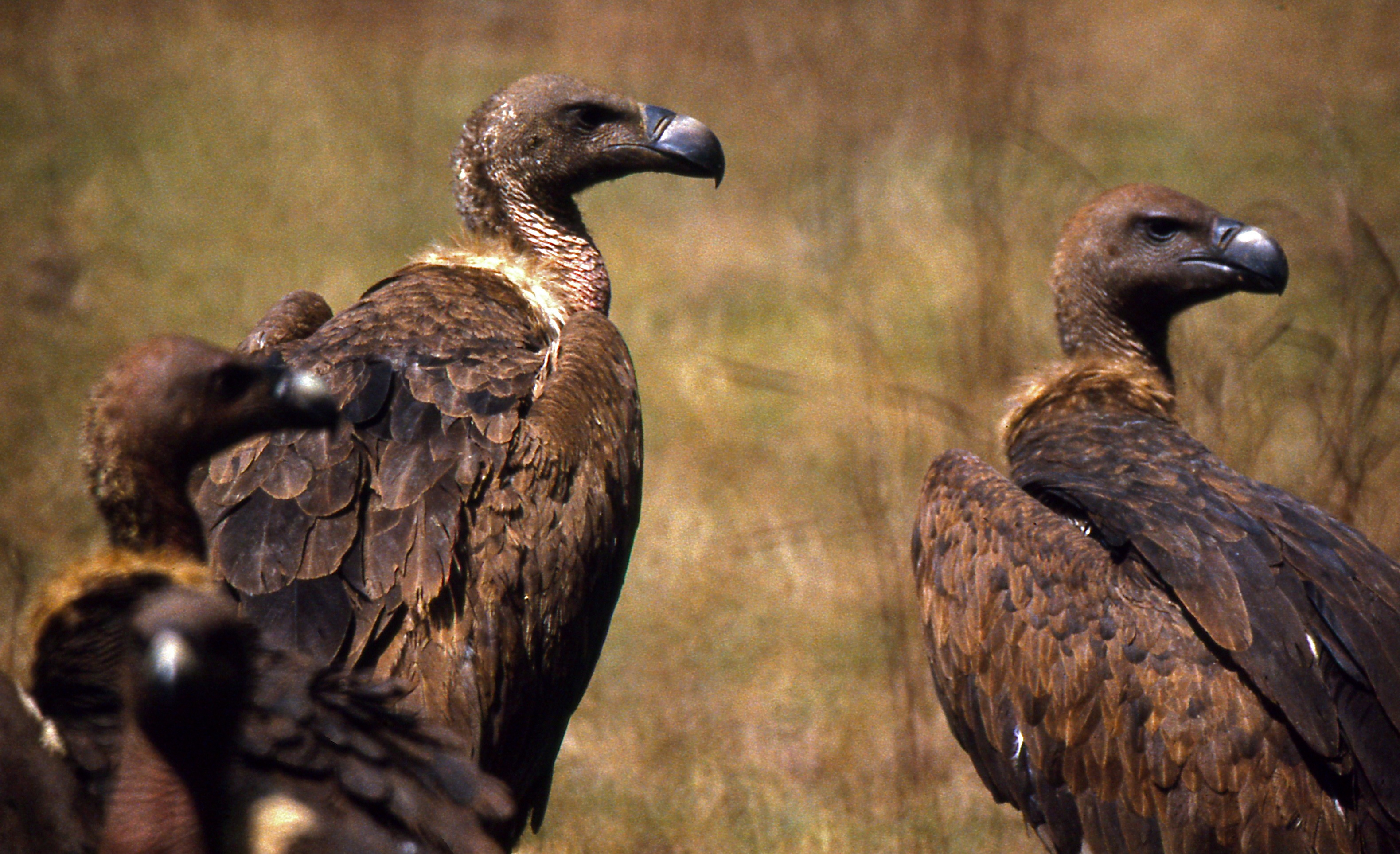 Keoladeo Ghana NP, Bharatpur, Rajasthan, INDIA Scanned Slide from March 1991